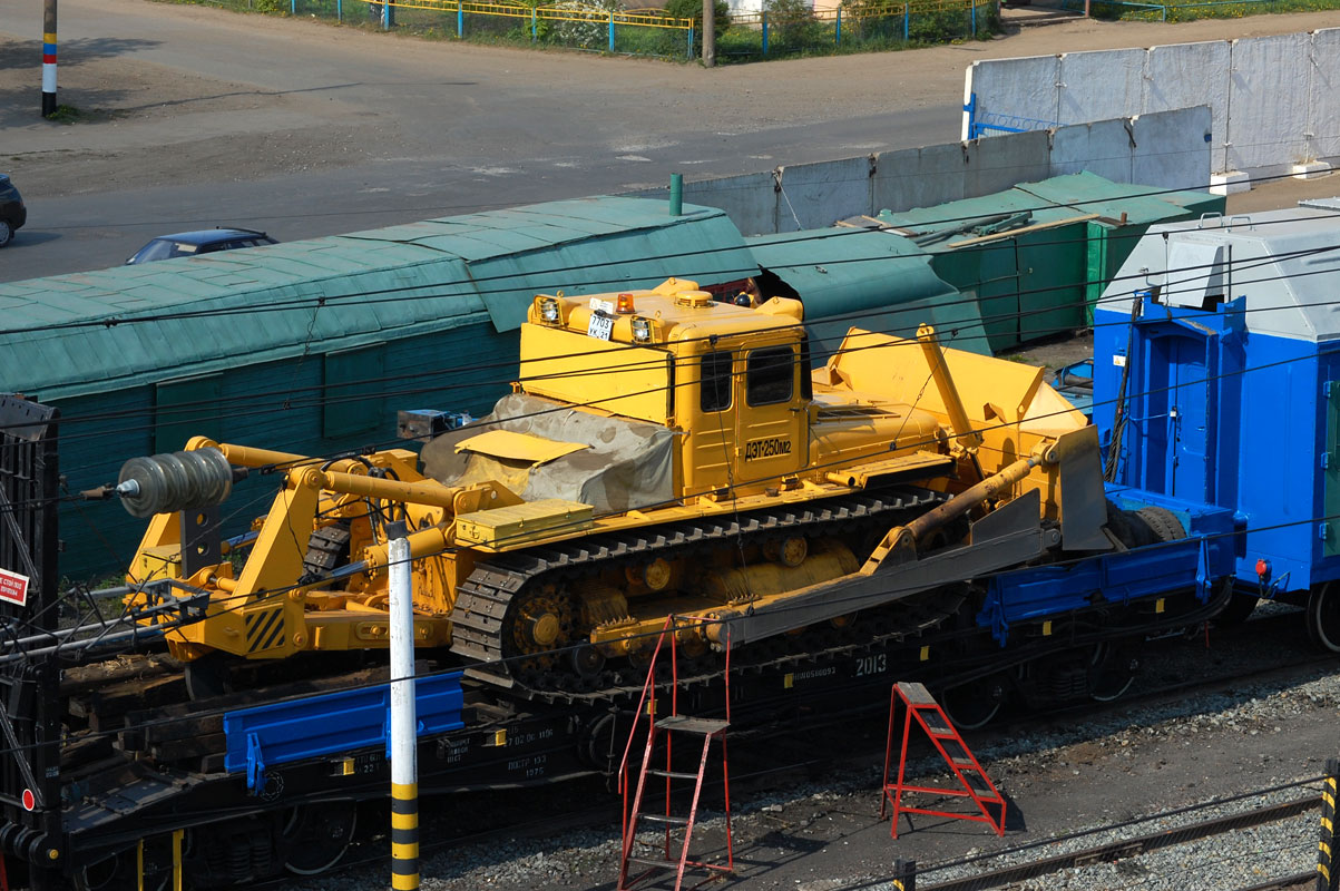 Tractor DET-250, Kanash, Chuvashiya, Russia